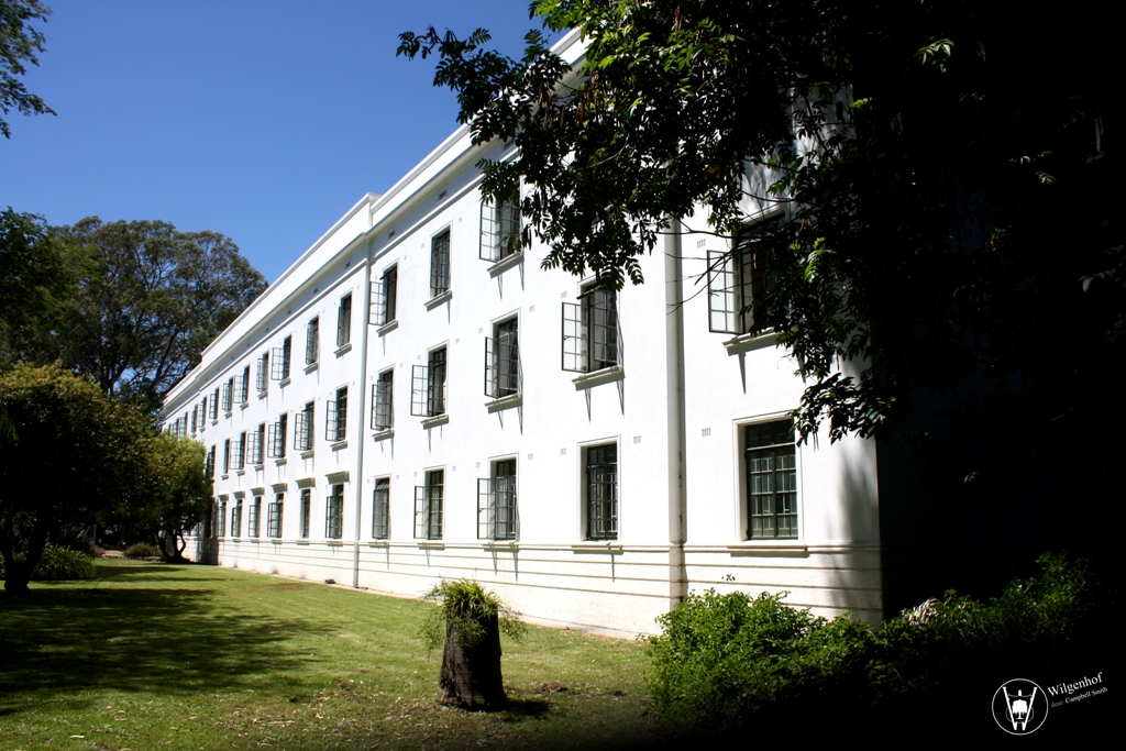 This in essence is the illustration of the term bekfluitjie This media shows a South African Protected Site with SAHRA file reference 9/2/084/0102.